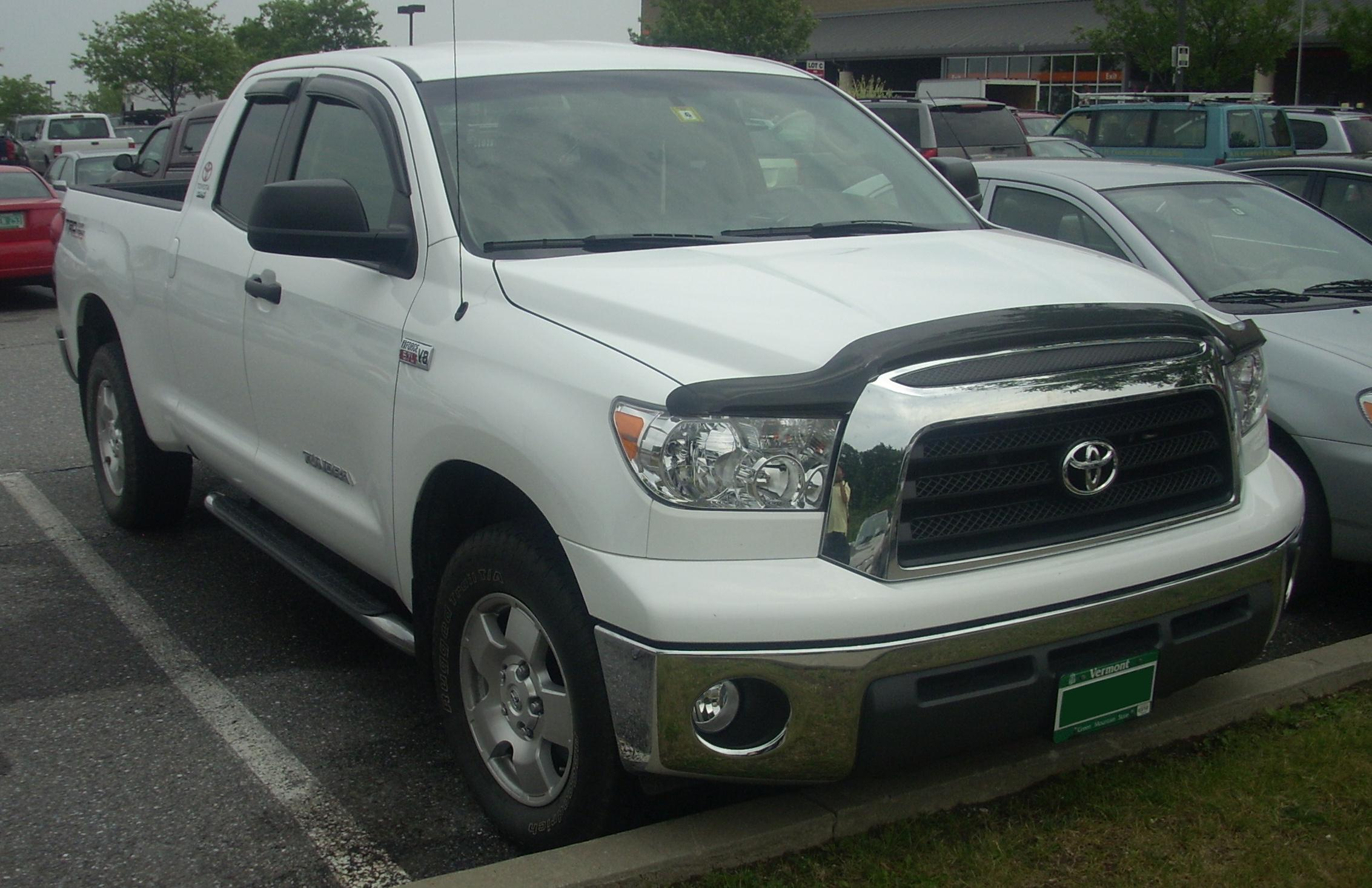 2007-present Toyota Tundra photographed in Williston, Vermont, USA.